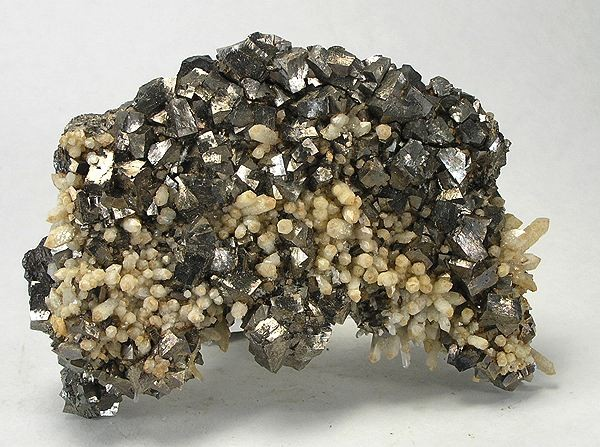 Arsenopyrite, Quartz Locality: Dal'negorsk (Dalnegorsk; Tetyukhe; Tjetjuche; Tetjuche), Primorskiy Kray, Far-Eastern Region, Russia (Locality at ) Size: 12.6 x 8.4 x 4.2 cm. Sharp, metallic crystals of arsenopyrite in a fine balance with milky quartz crystals. The arsenos have a nice bronzy luster. On the back side of this large and impressive specimen is massive sphalerite.